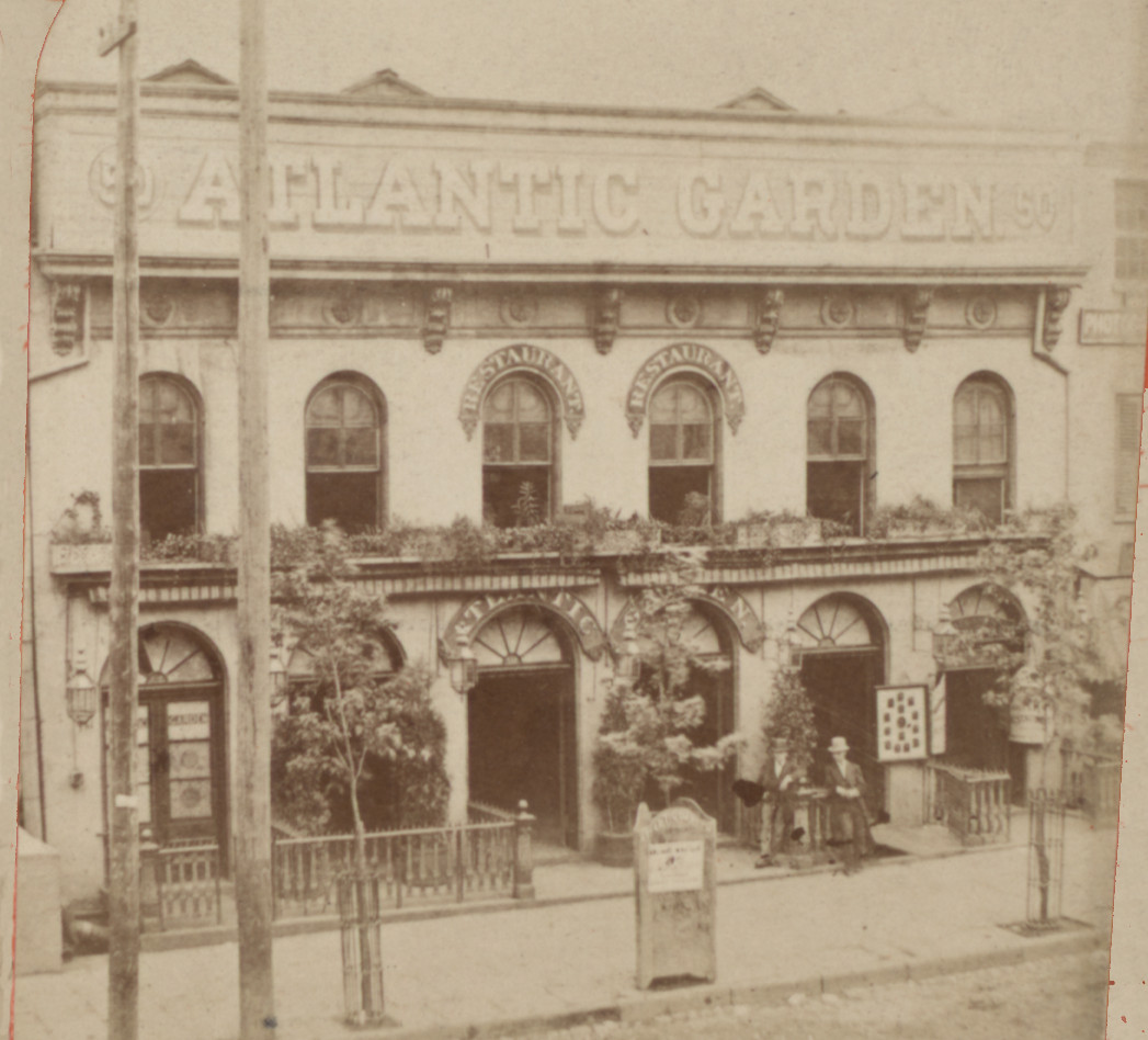 Atlantic Garden, a now-demolished 19th-century theater on the Bowery in Manhattan, New York City.